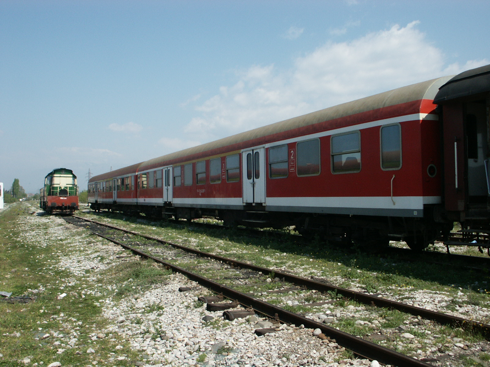 Trains in Albania, Spring 2007